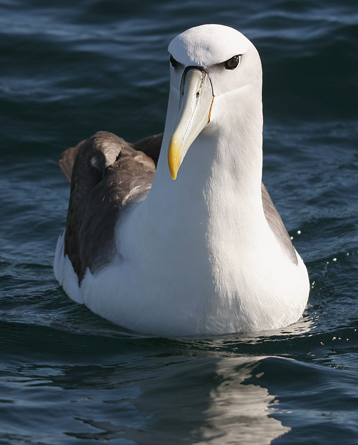 Shy Albatross, Thalassarche cauta, New Zealand. Author: Mark Jobling